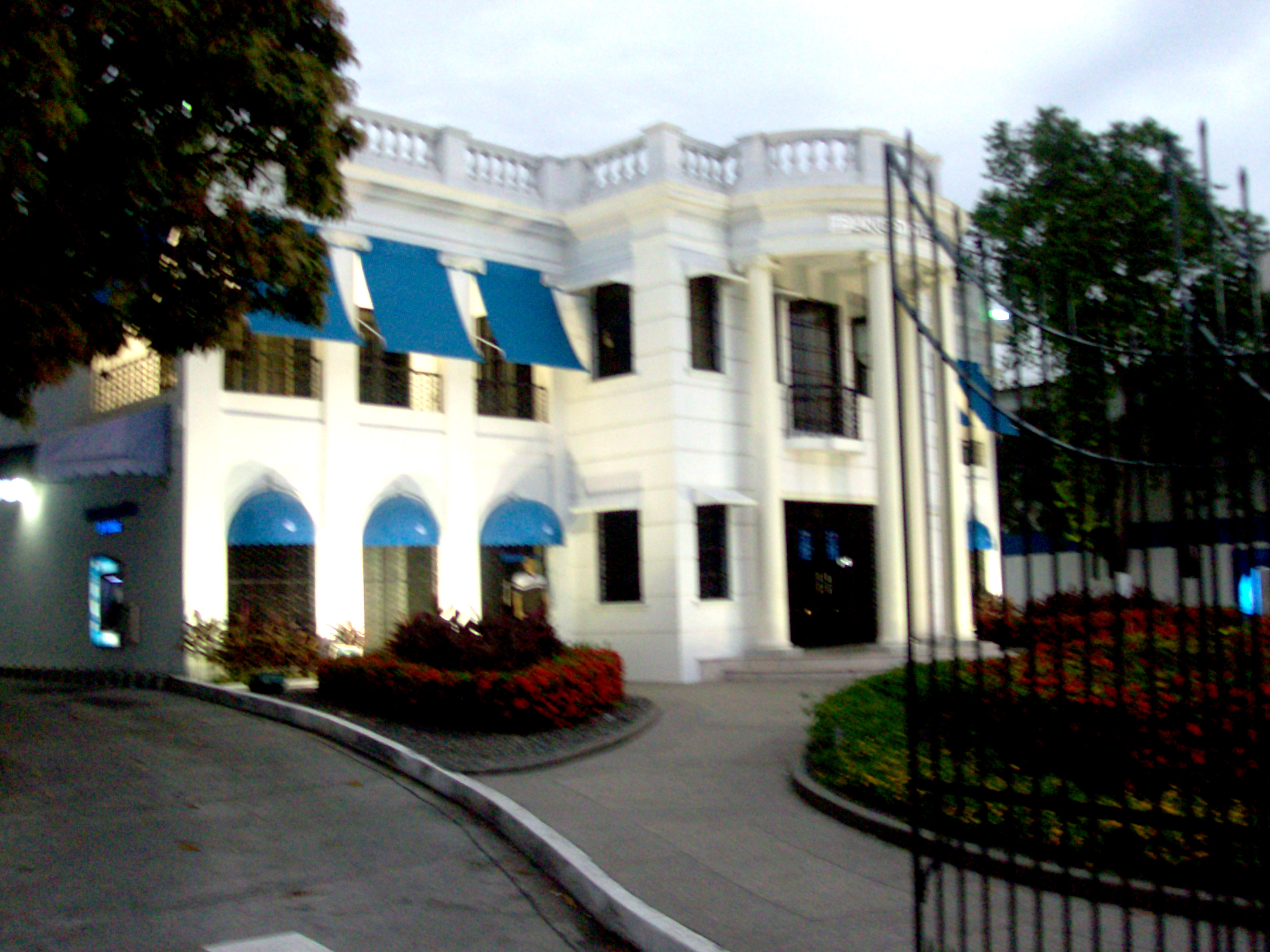 House converted into bank, Banco Pacific